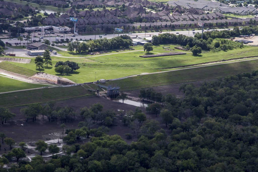 Aerial view of Barker Reservoir, U.S. Army Corps of Engineers Southwestern Division